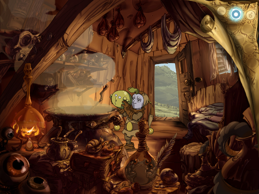 A screenshot from the computer game „The Whispered World“.